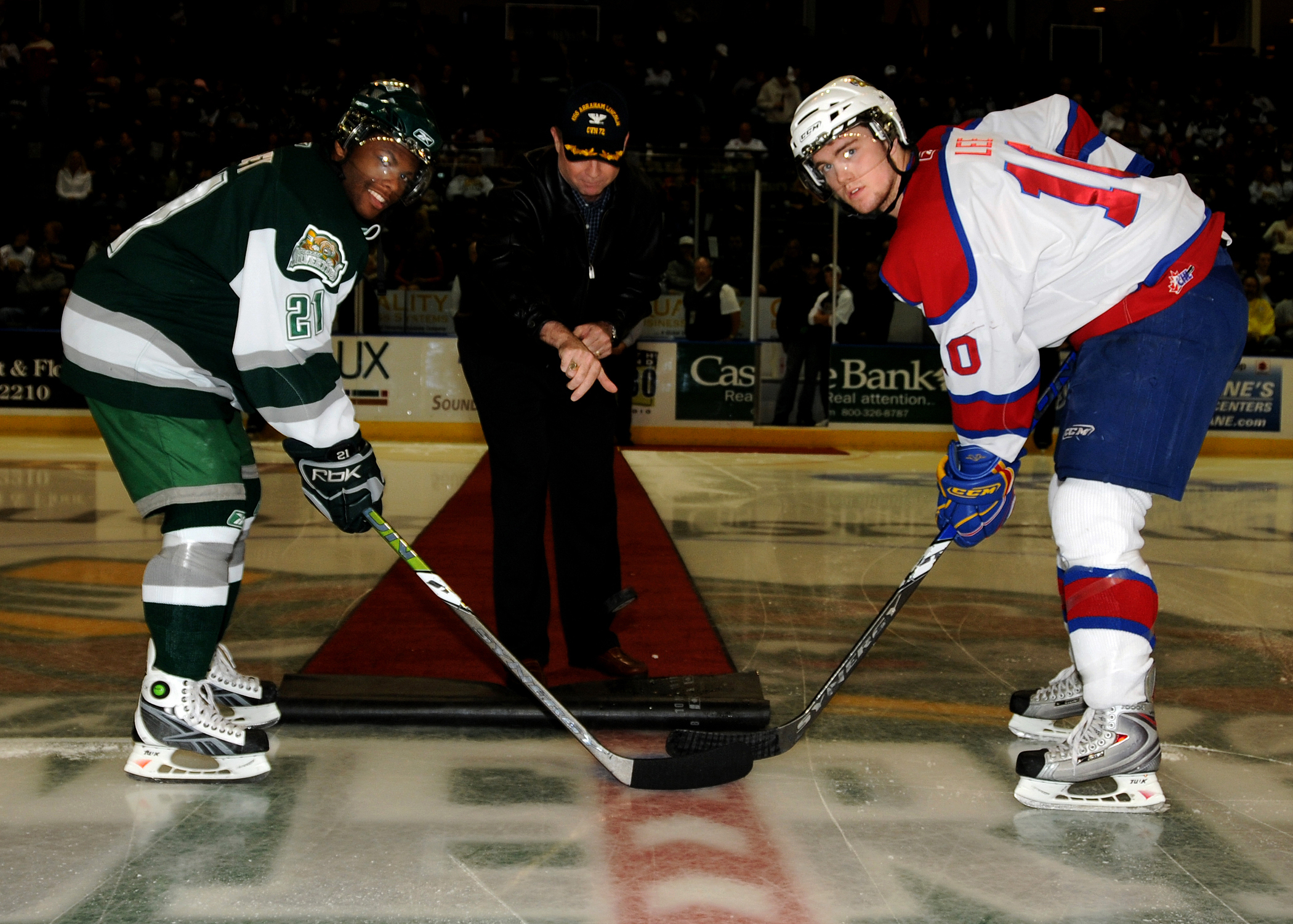 EVERETT, Wash. (Nov. 1, 2008) Capt. Patrick Hall, commanding officer of the aircraft carrier USS Abraham Lincoln (CVN 72), drops the ceremonial puck before a local hockey game in the Comcast Arena, Everett Events Center, between the Everett Silvertips and the Edmonton Oil Kings. Lincoln is conducting upkeep in the homeport of Everett after returning from a seven-month deployment to the U.S. 5th Fleet area of responsibility. (U.S. Navy photo by Mass Communication Specialist 3rd Class Geoffrey Lewis/Released)